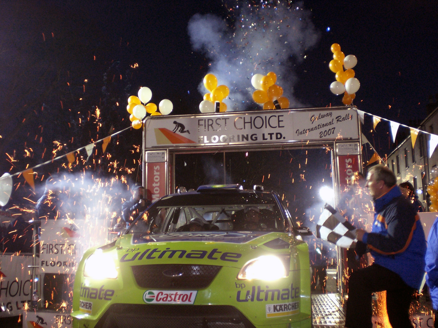 Twice world champions Marcus Grönholm and Timo Rautiainen win the Galway International Rally on the 5th February 2007.